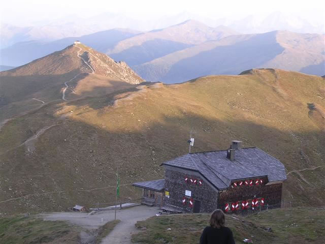 Sillianer Huette with Helmhuette in background